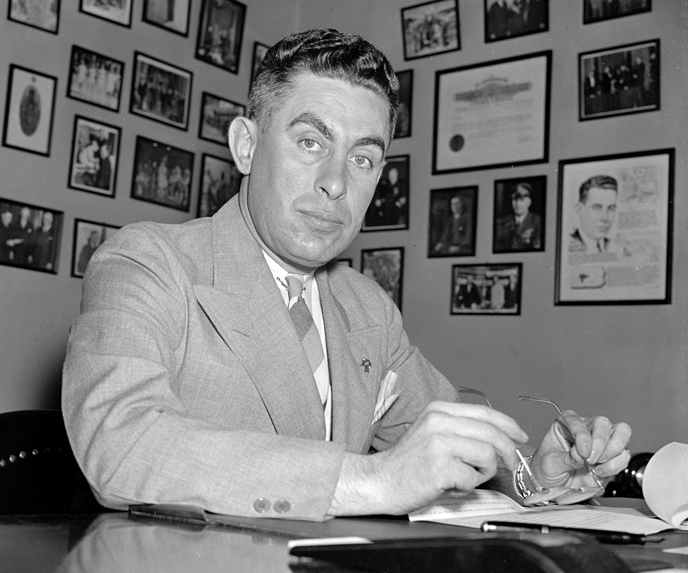 James E. Van Zandt, US Representative from Pennsylvania